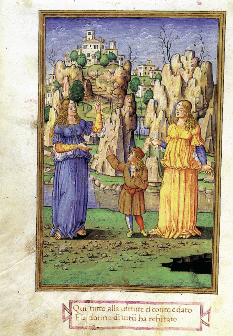 Latin Grammar Book for Maximilian Sforza 1496-99 Manuscript (Ms. 2167), 275 x 180 mm Biblioteca Trivulziana, Milan This text of this manuscript is the Grammatica by Aelius Donatus (active mid 4th century), a Roman grammarian and teacher of rhetoric, the tutor of St. Jerome. It contains grammatical and moral treatises giving elementary instruction in verse. It was made for Massimiliano, the son of Ludovico Sforza (Ludovico il Moro), Duke of Milan (1452-1508) and his wife Beatrice d'Este. The illustrations were executed by several artists, including Ambrogio de Predis and Giovanni Pietro Birago. The decoration on folio 42v, shown here, in which the young prince is represented between two female figures personifying Vice and Virtue, is attributed to Birago.